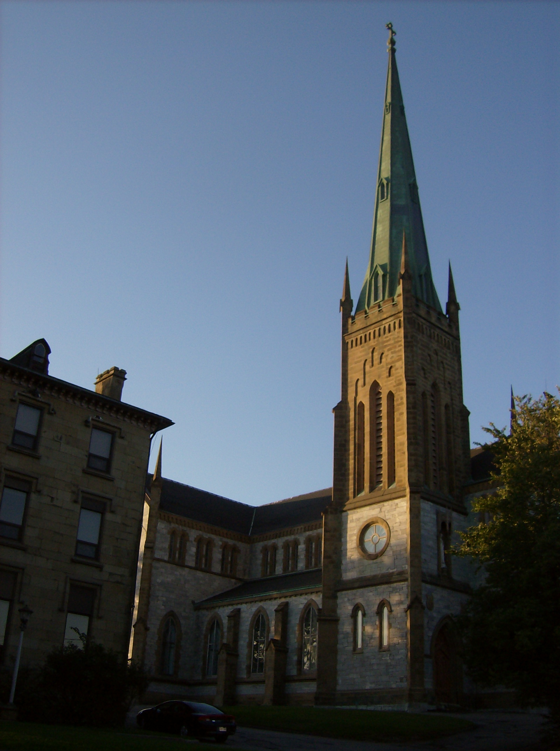 Cathedral of the Immaculate conception Saint John NB